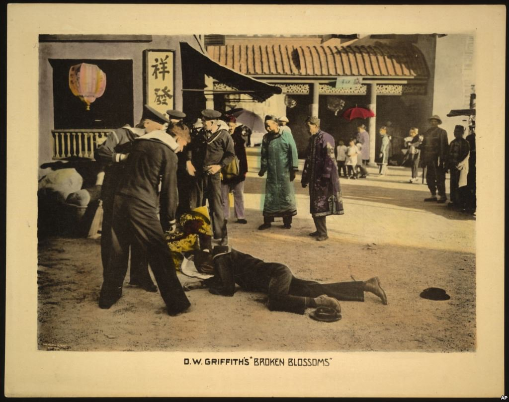 This undated handout image provided by the Library of Congress shows a motion picture lobby card for D.W. Griffith's film Broken Blossoms (1919), showing sailors standing over two bodies, lying on the dirt street in Chinatown.